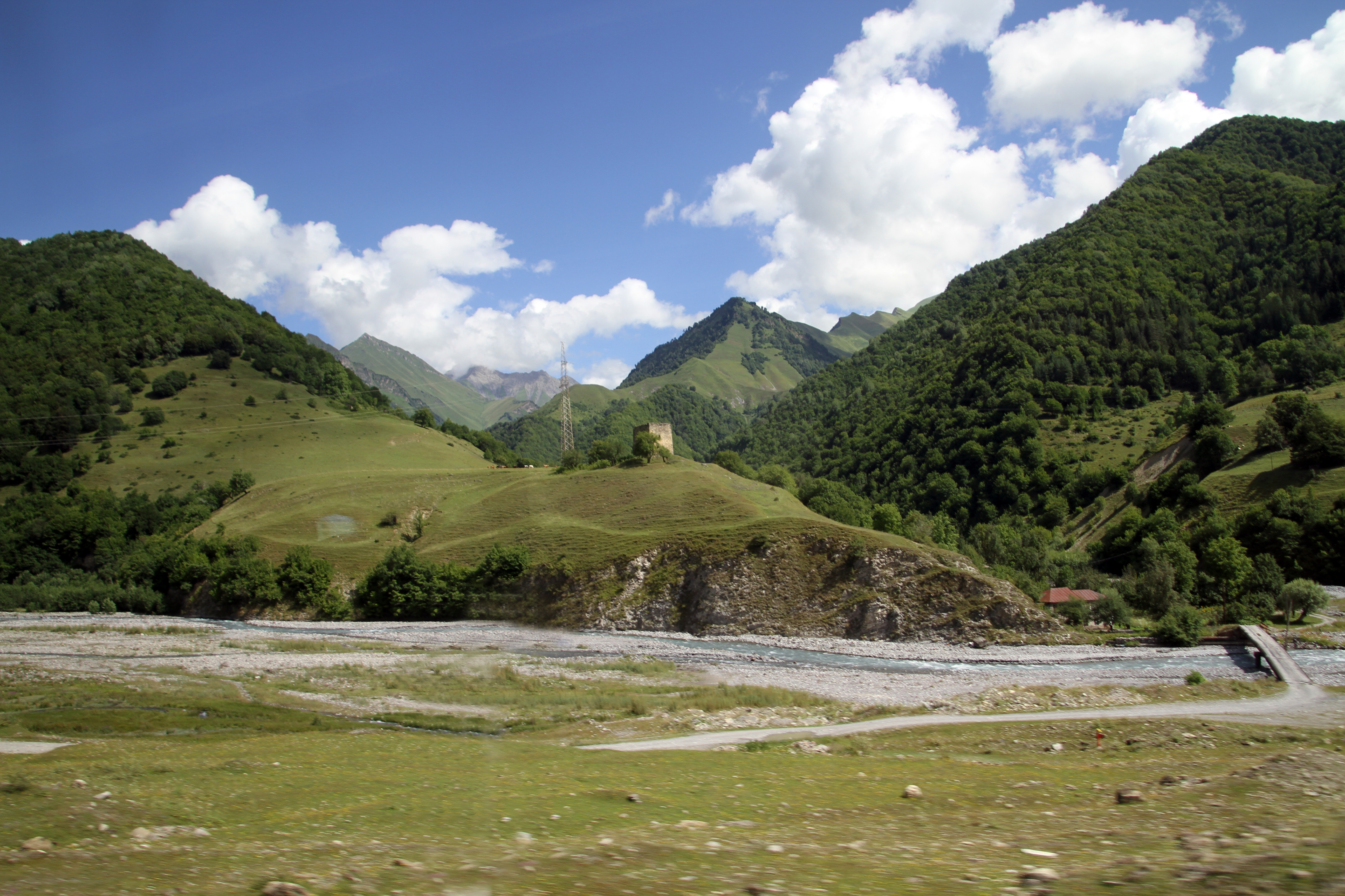 Military Road of Georgia